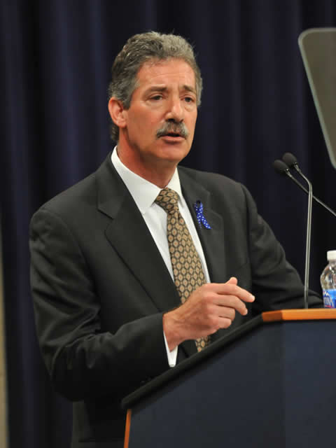 Deputy Attorney General James M. Cole delivers the opening remarks at the launch of the Drug Endangered Children Public Awareness Campaign on May 31, 2011.